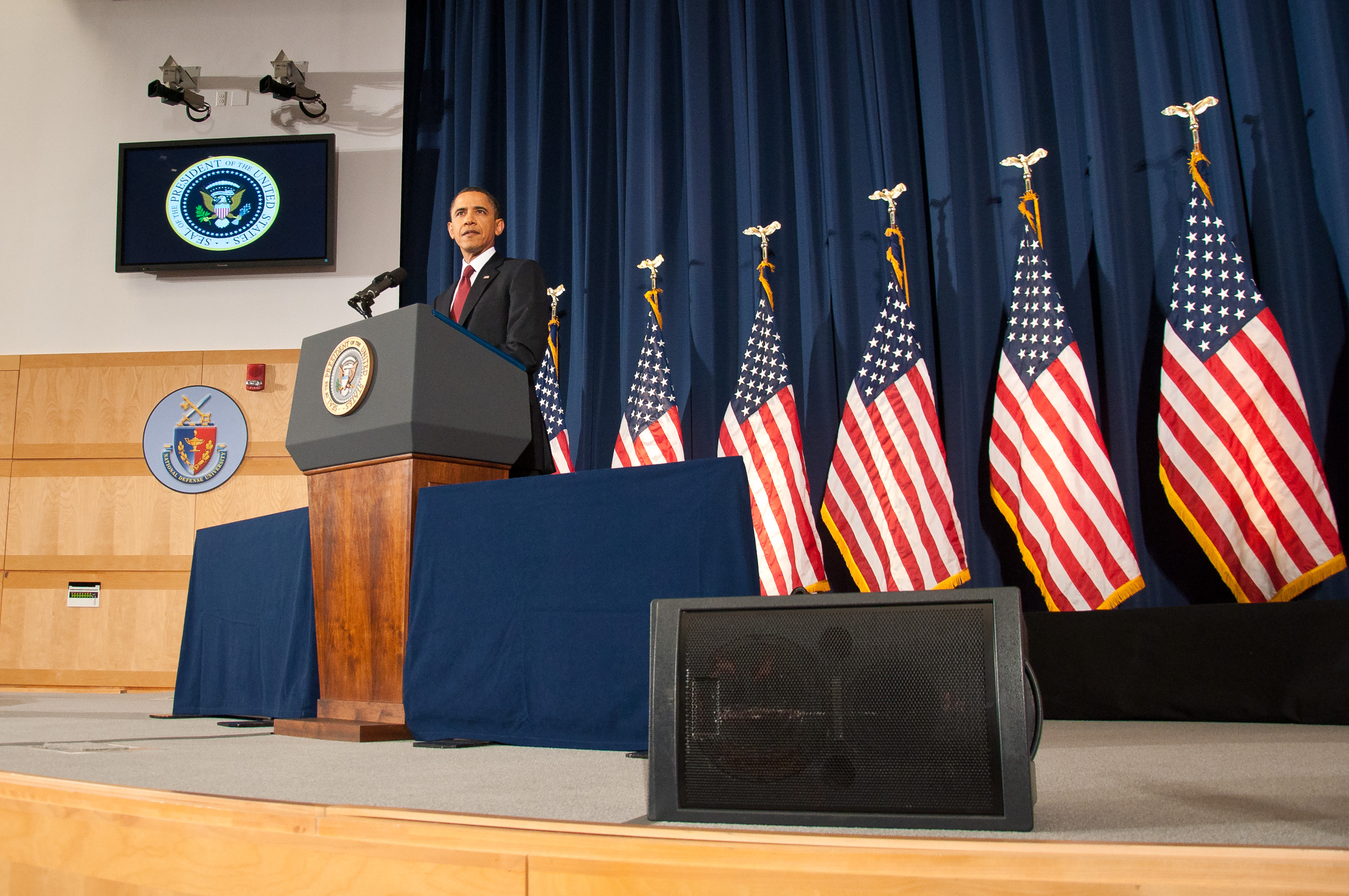 On Monday, March 28, 2011, President Barack Obama delivered an address at the National Defense University in Washington, DC to update the American people on the situation in Libya, including the actions the U.S. government has taken with allies and partners to protect the Libyan people from the brutality of Moammar Qaddafi, the transition to NATO command and control, and policy going forward.